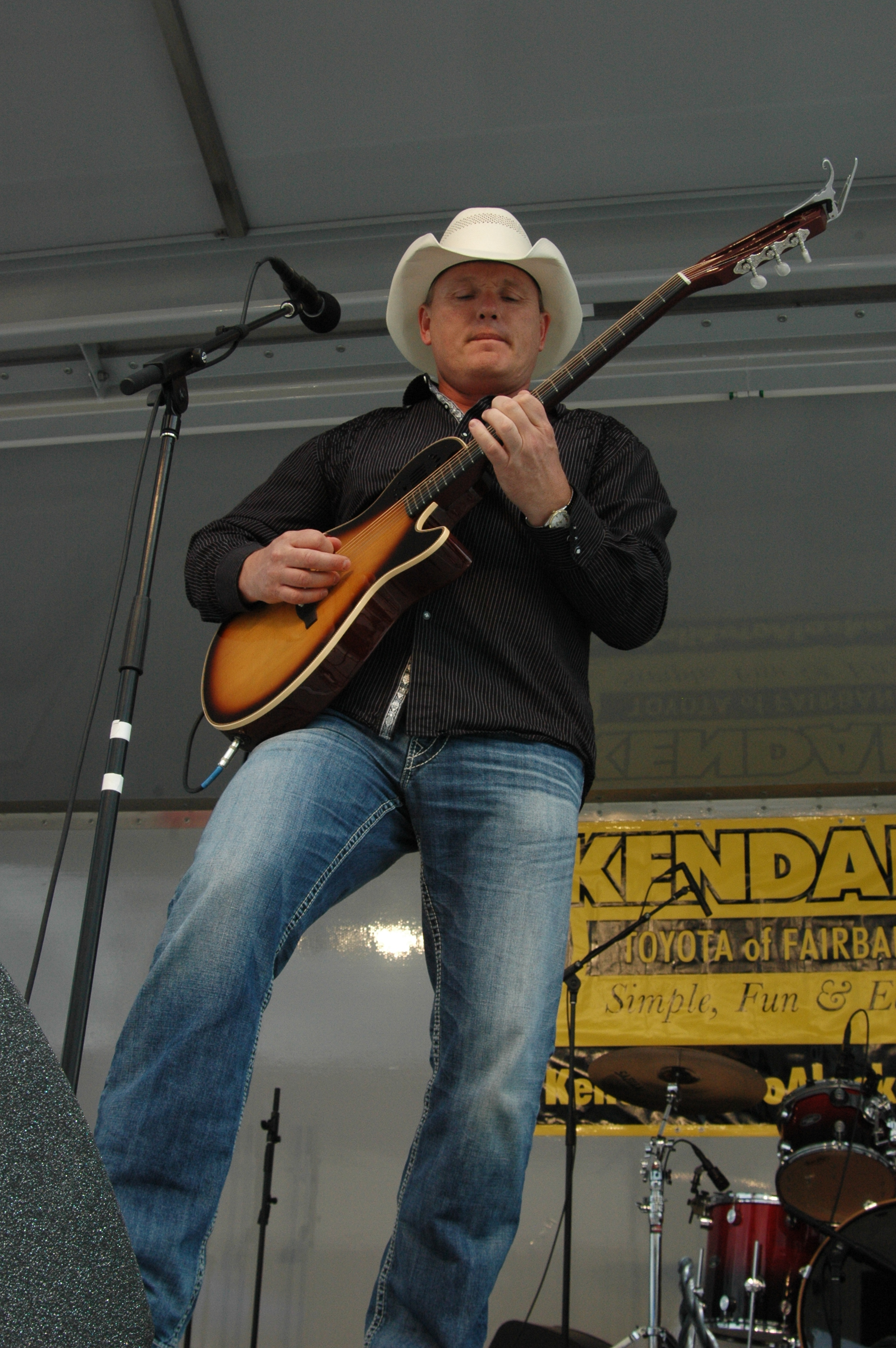 Jimmy Weber, who recently retired from the United States Air Force after twenty-seven years, now tours with country singer-songwriter Ray Scott. Weber, former U.S. Air Force band leader and Scott were visiting from Nashville, TN, as the opening and closing act for the Freedom Fest 2012-Reunited Battle of the Bands. Scott, whose current album “Rayality” is climbing the country charts and he currently has a song on the movie "Act of Valor" soundtrack. (Photo by Allen Shaw/Fort Wainwright PAO)